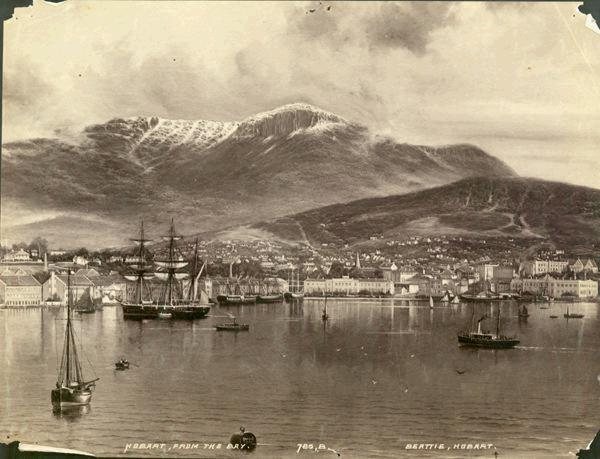 A photograph of Hobart taken by Beattie in 1900.